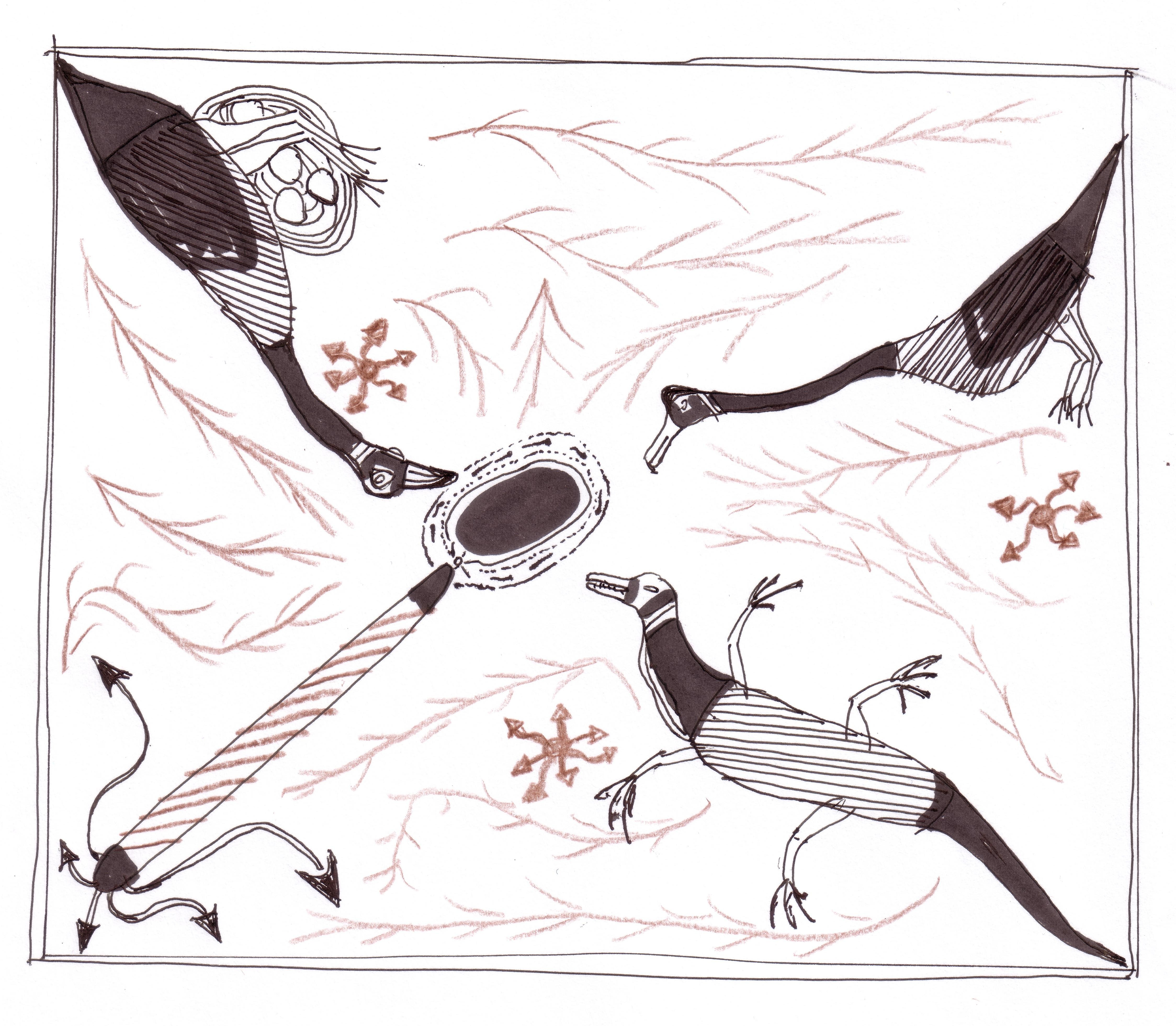 Sketch trying to illustrate the Arnhem Land North Coast Indigenous Australians cosmogony, as described by David Gulpilil in the australian movie "Ten canoes" made by Rolf de Heer and Peter Djigirr (sketch derived from a painting by Johnny Bulunbulun, a Ganallingu artist working in Maningrida).